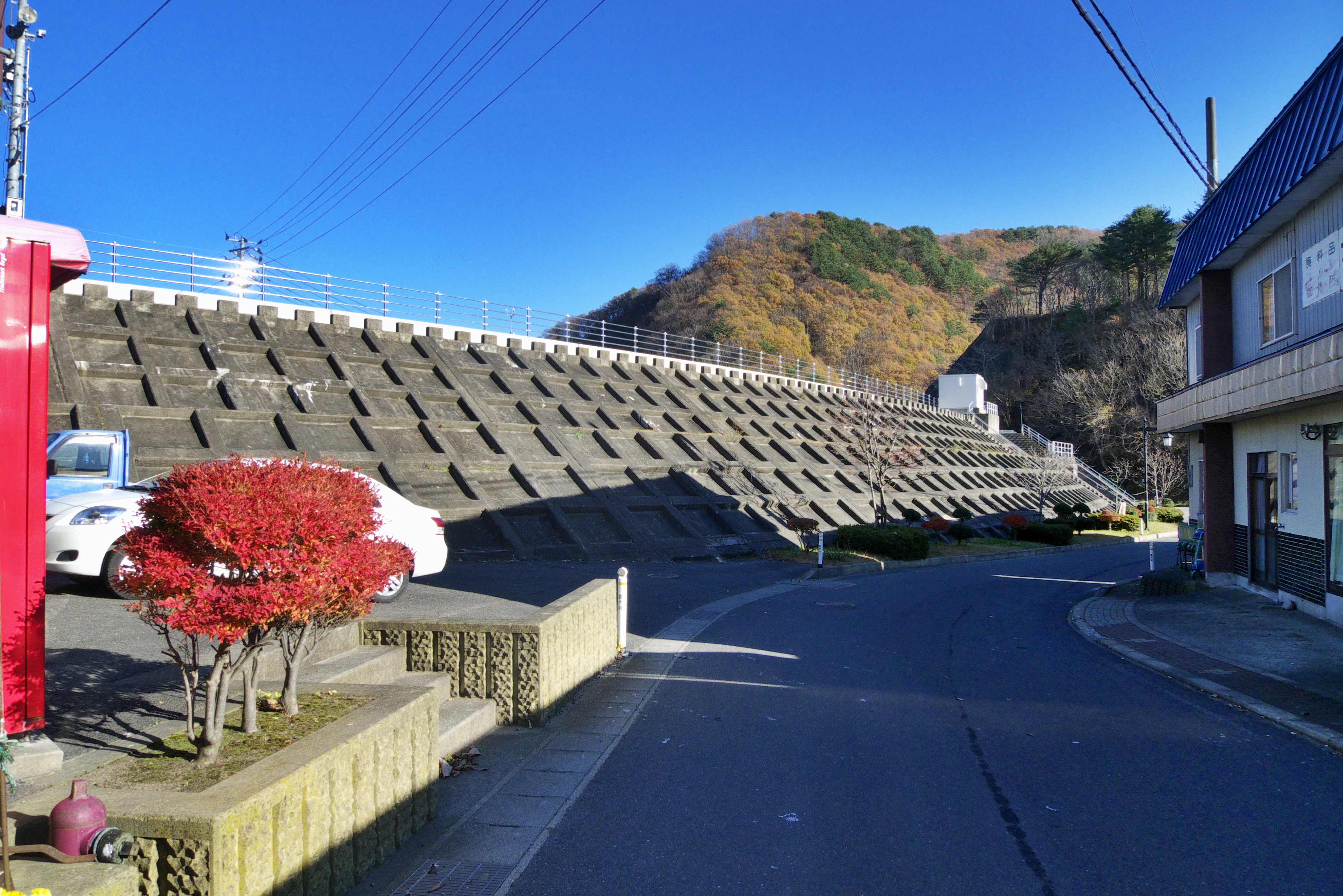 Otanabe Seawall (Otanabe bochotei) in Fudai, Iwate, Japan